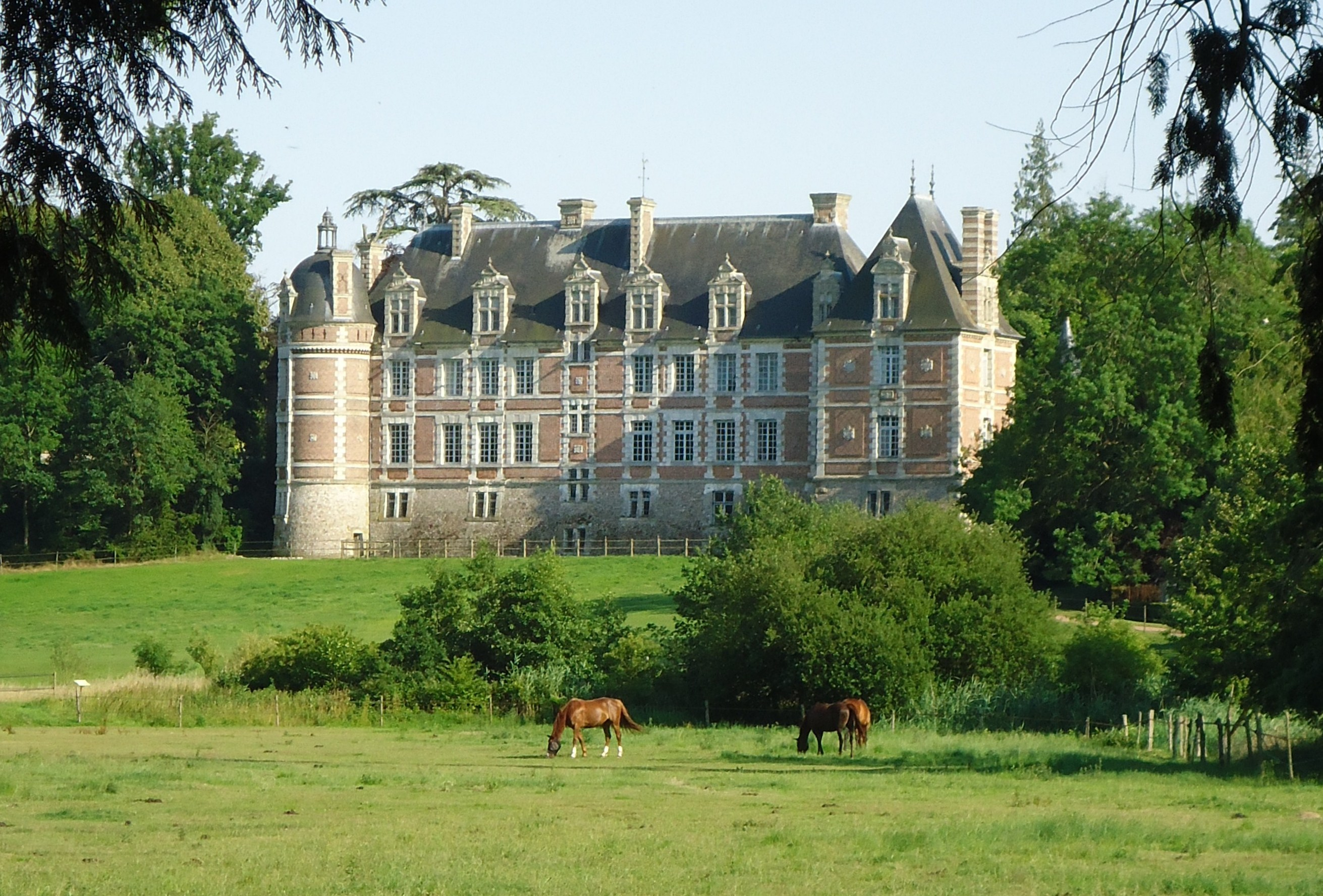 Facade Nord du Chateau de Chambray - Gouville - Eure (27)